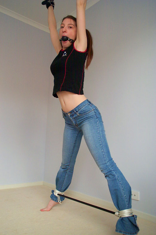 Bound on tippy toes